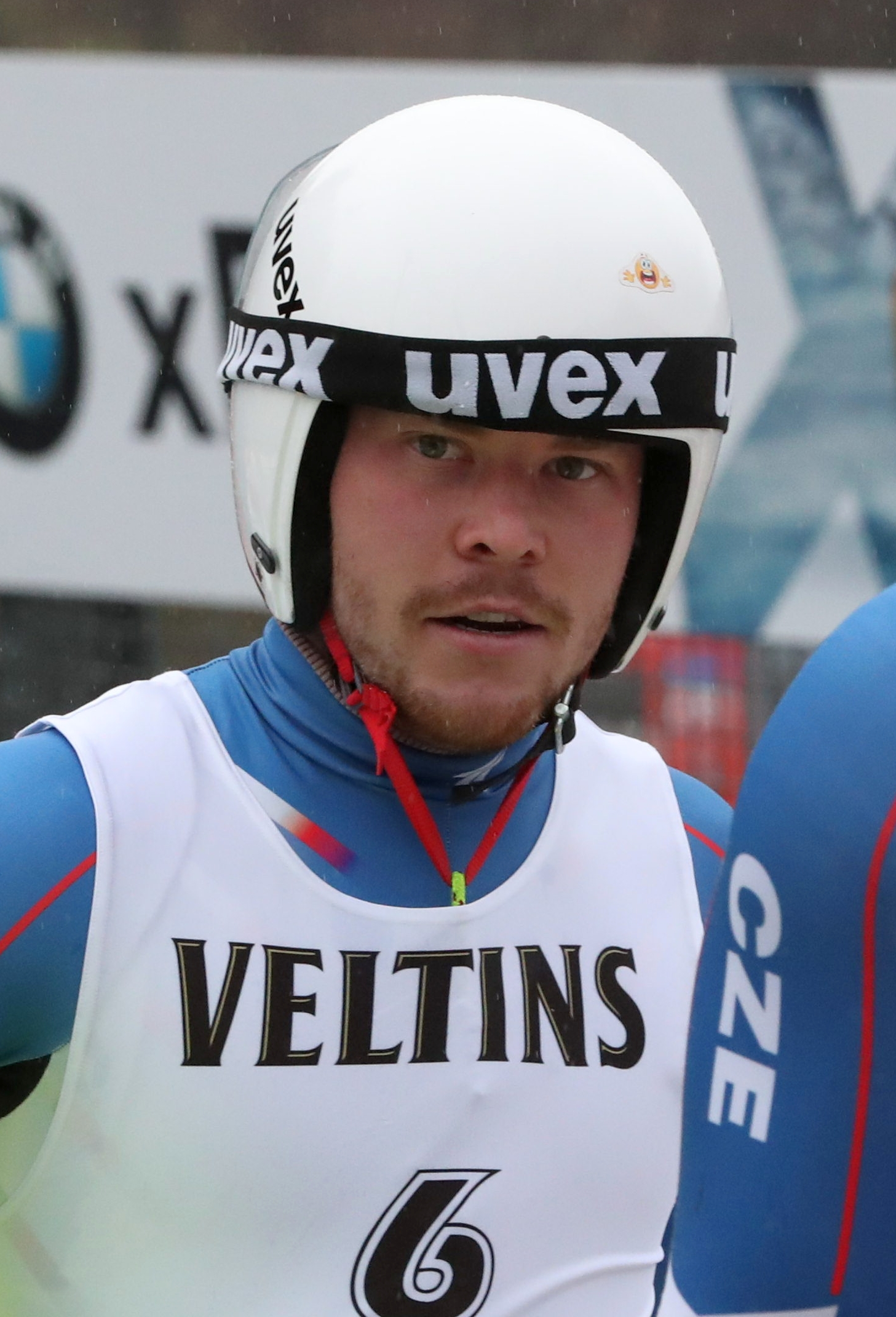 Doubles Nationscup race in Winterberg: Jaromír Kudera